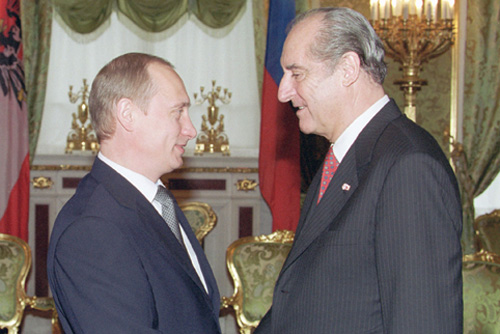 THE GRAND KREMLIN PALACE, MOSCOW. Vladimir Putin with Thomas Klestil, Austria's President.